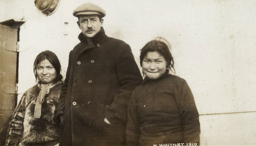 American sportsman, adventurer and writer Harry Whitney with two Inuit women.